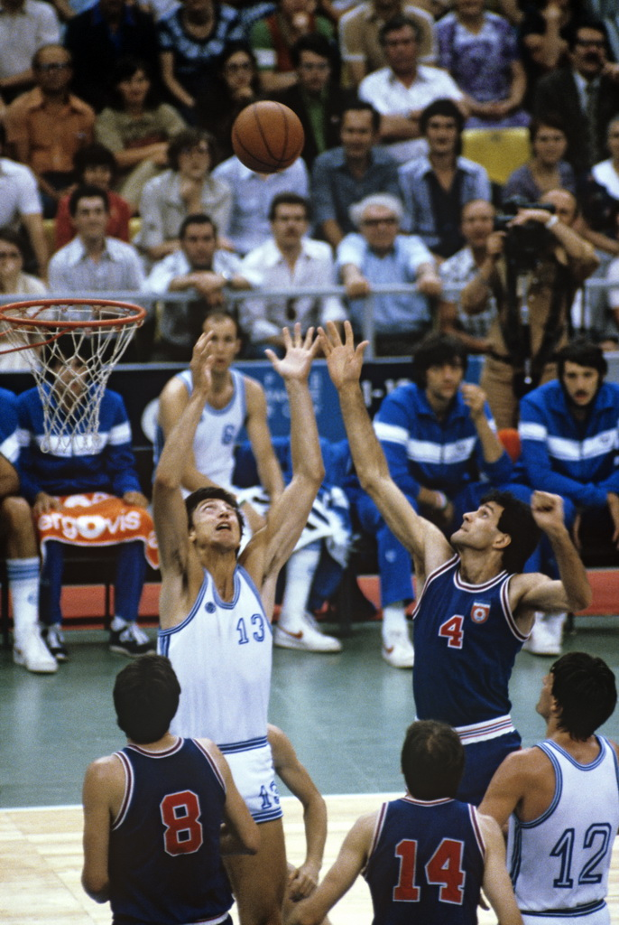 “Basketball. Yugoslavia vs. Italy”. Basketball. Men. Yugoslavia (dark colors) vs. Italy. The 22nd Summer Olympic Games.